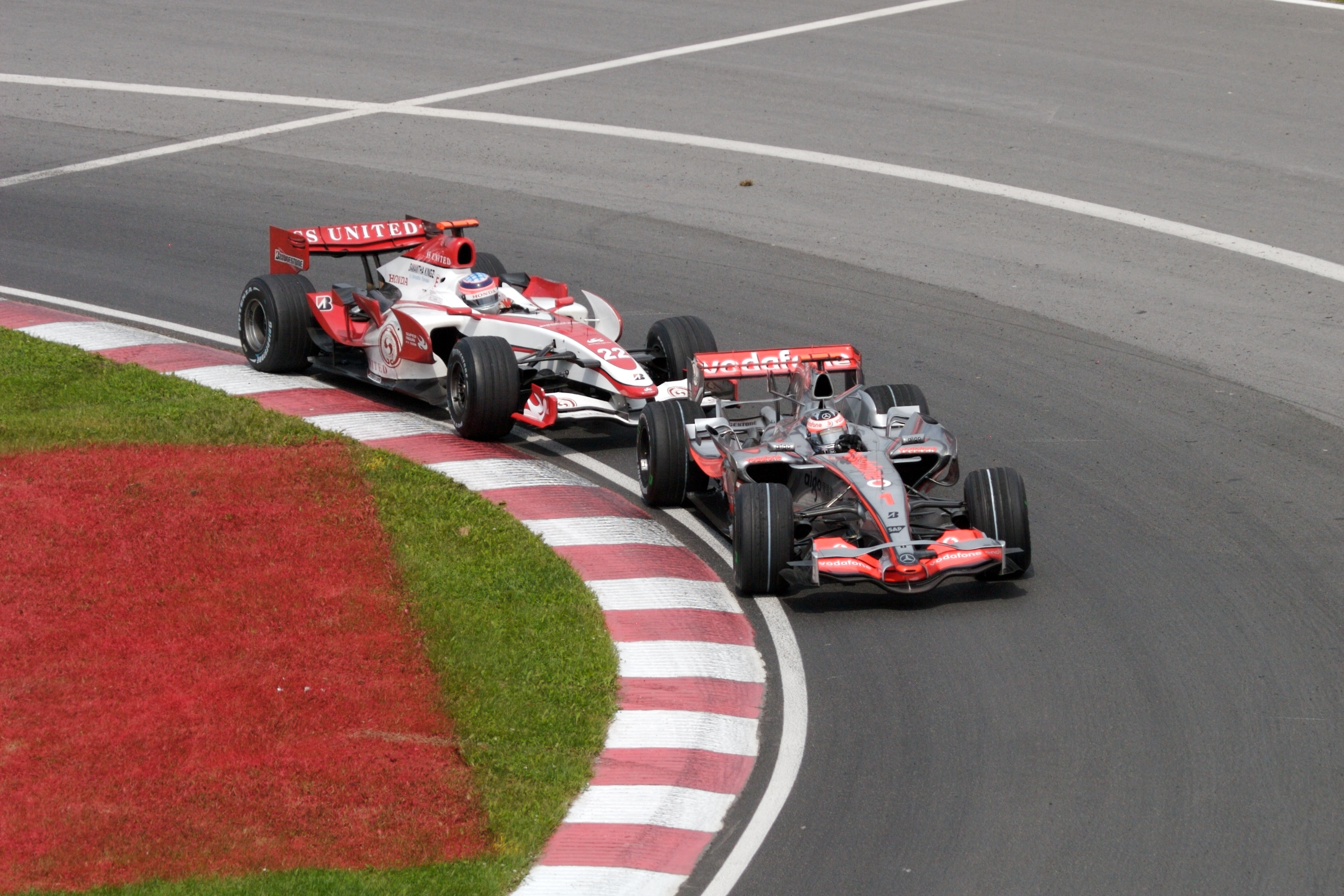 Fernando Alonso (McLaren) leads Takuma Sato (Super Aguri) at the 2007 Canadian Grand Prix.